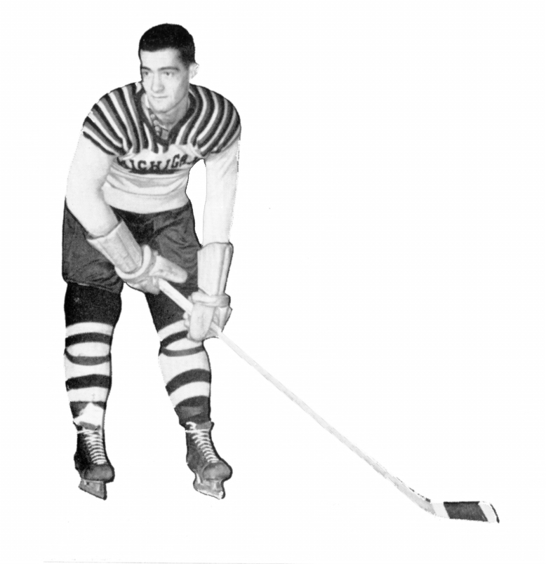 Photograph of 1947–48 Michigan Wolverines men's ice hockey defenseman Ross Smith This work is in the public domain in the United States because it was published in the United States between 1923 and 1977 without a copyright notice. See Commons:Hirtle chart for further explanation. Note that it may still be copyrighted in jurisdictions that do not apply the rule of the shorter term for US works (depending on the date of the author's death), such as Canada (50 p.m.a.), Mainland China (50 p.m.a., not Hong Kong or Macao), Germany (70 p.m.a.), Mexico (100 p.m.a.), Switzerland (70 p.m.a.), and other countries with individual treaties.